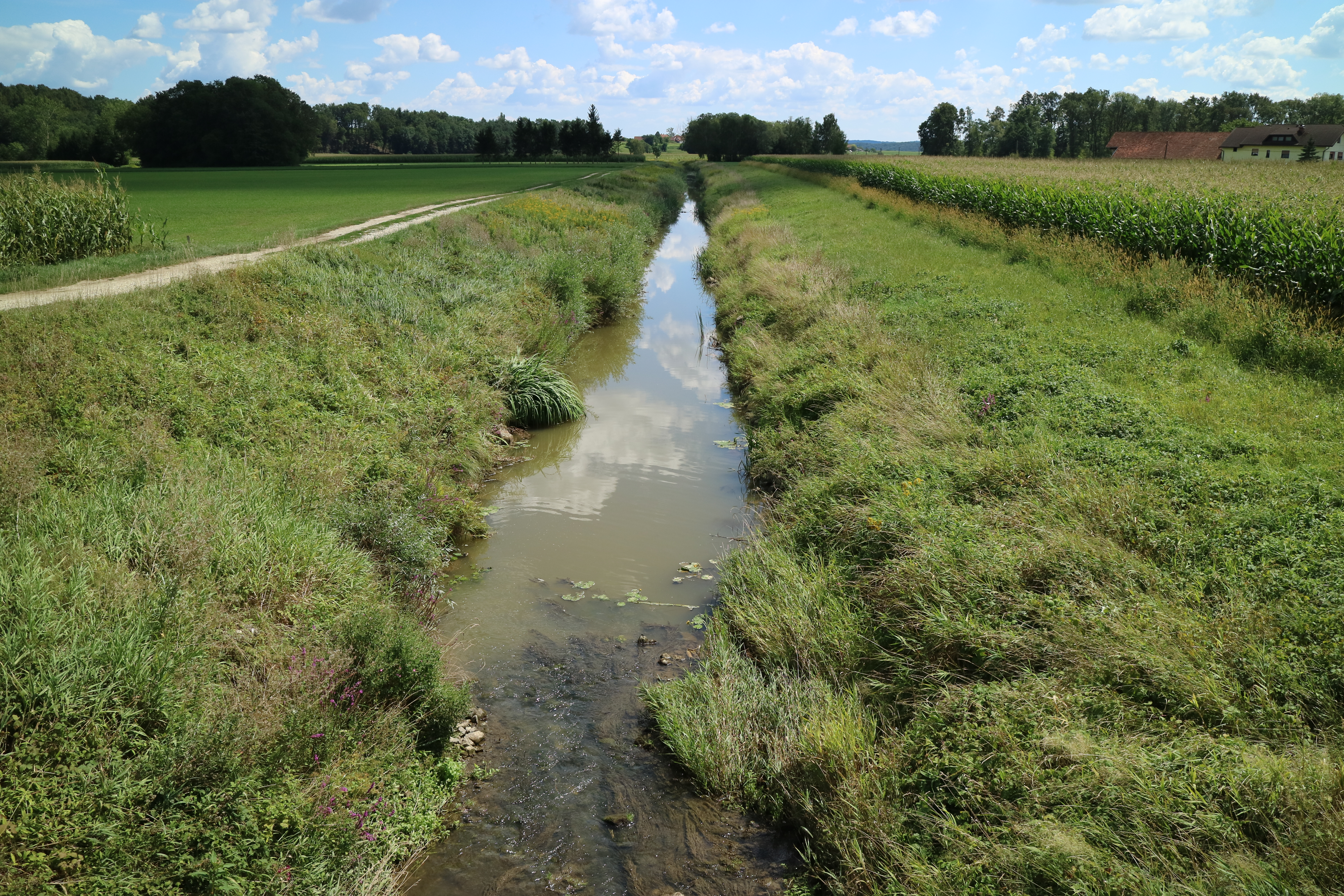 Ščavnica at Biserjane, Slovenia, view downriver